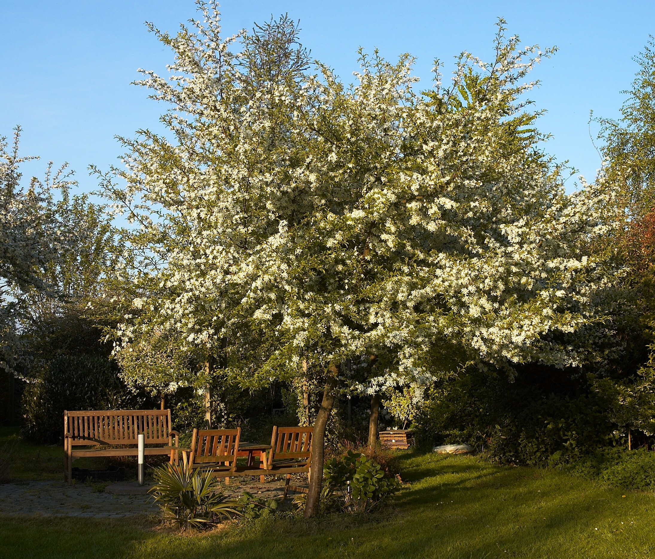 Flowering Malus toringo var. sargentii, sieboldii Other photos of the same tree